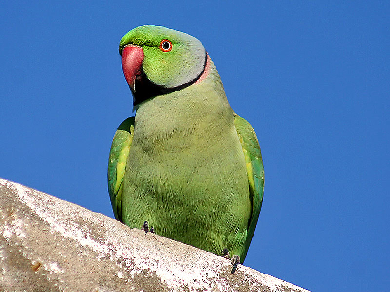 Rose-ringed Parakeet Psittacula krameri at Hodal, in Faridabad, District of Haryana, India.